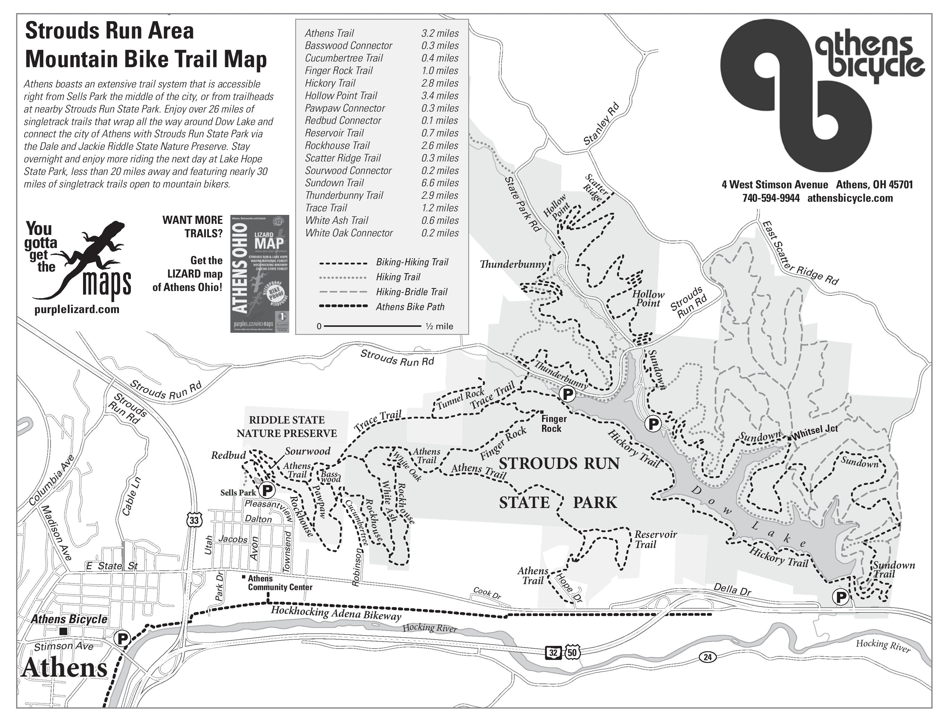 A trail map of Sells Park and Strands Run.